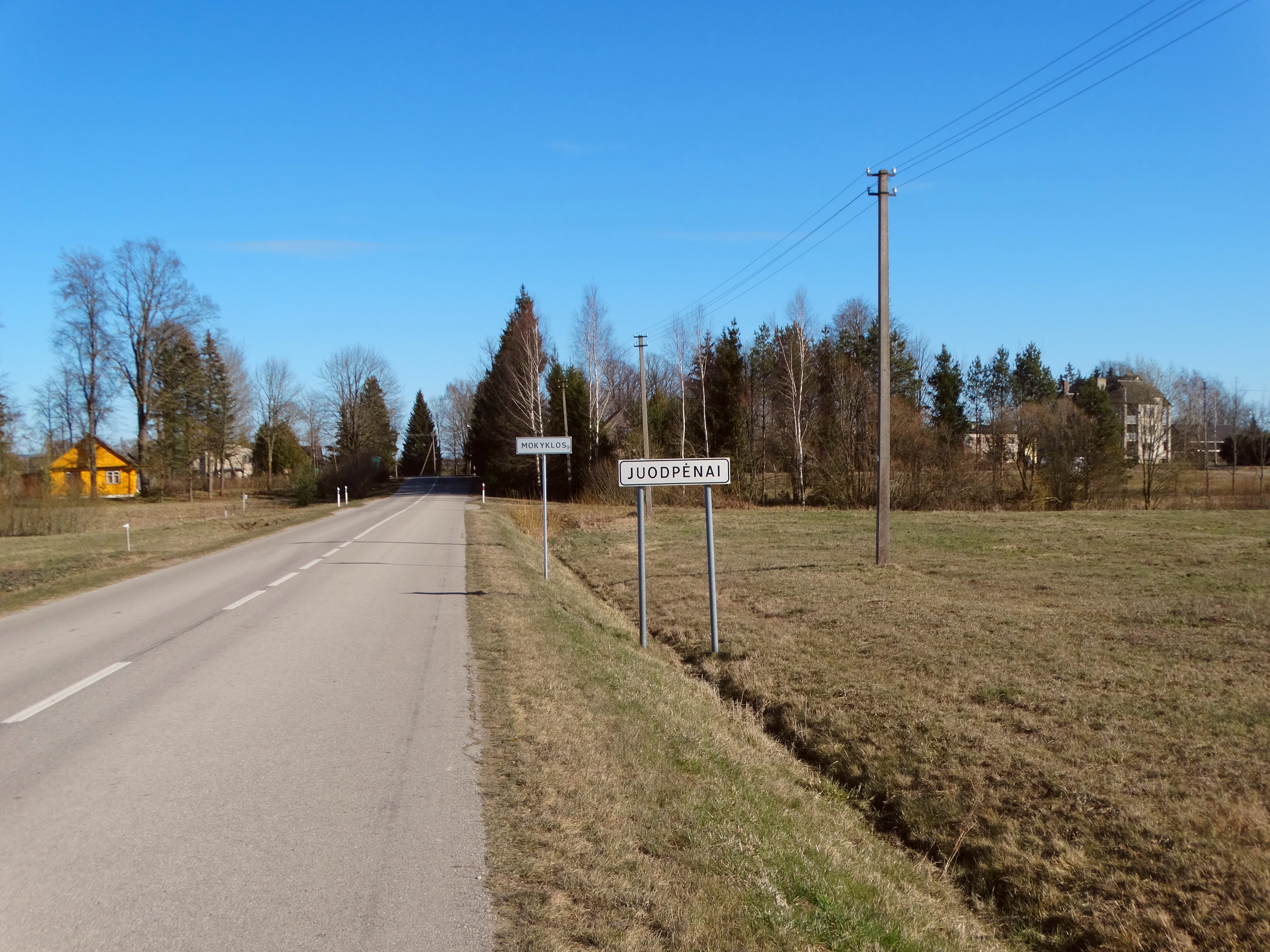 Juodpėnai, Kupiškis district, Lithuania